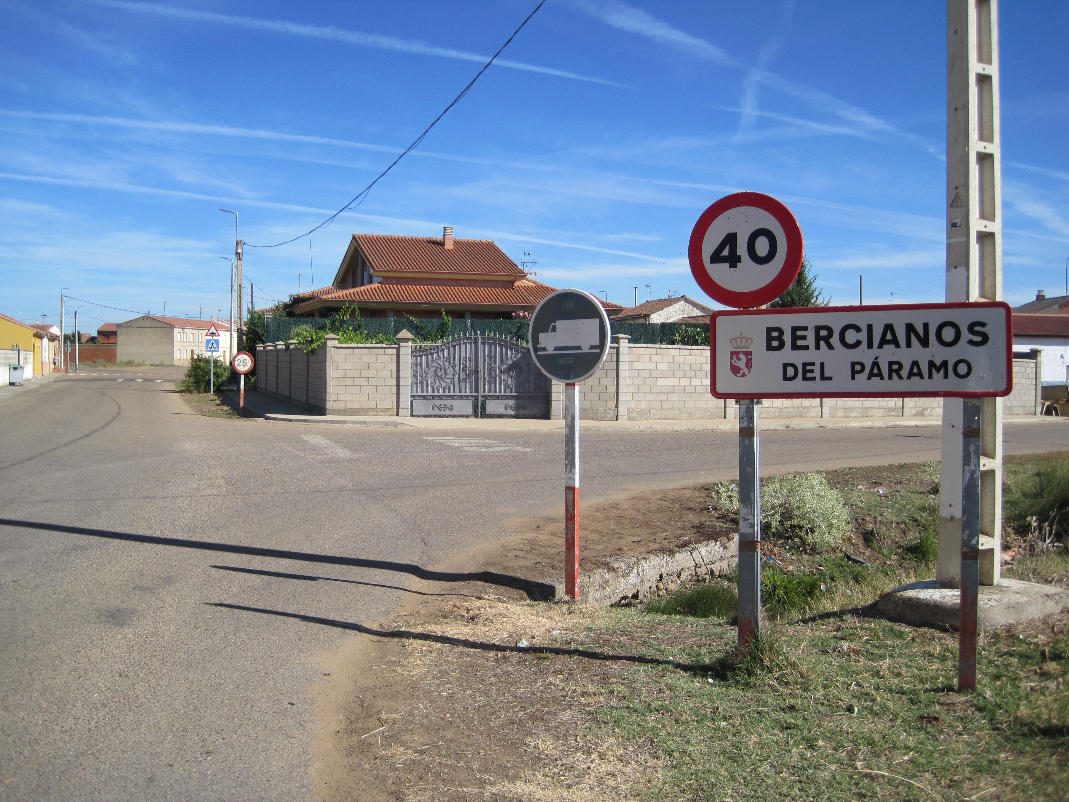 Imagen tomada en Bercianos del Páramo (León).